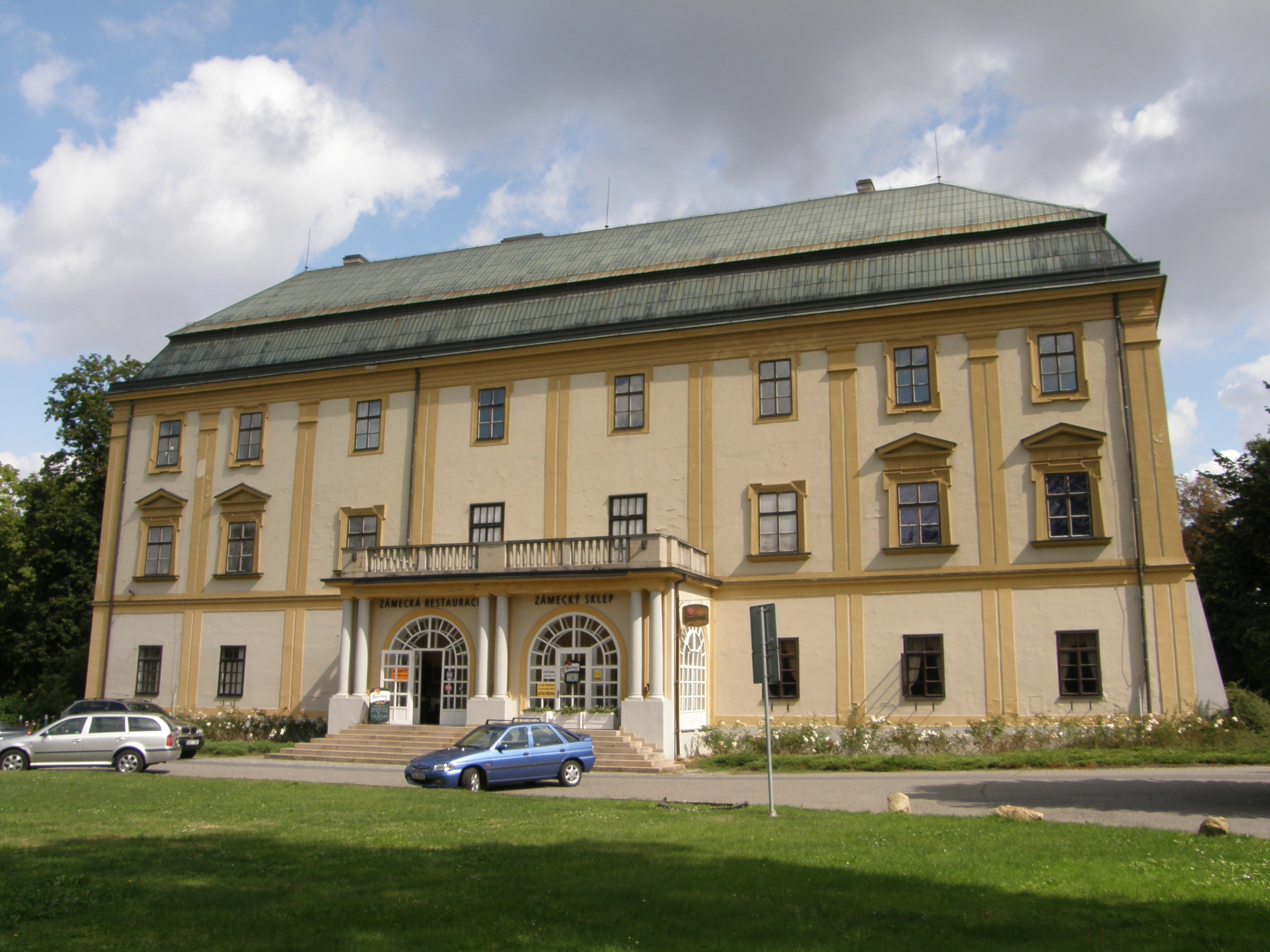 Castle Zlín